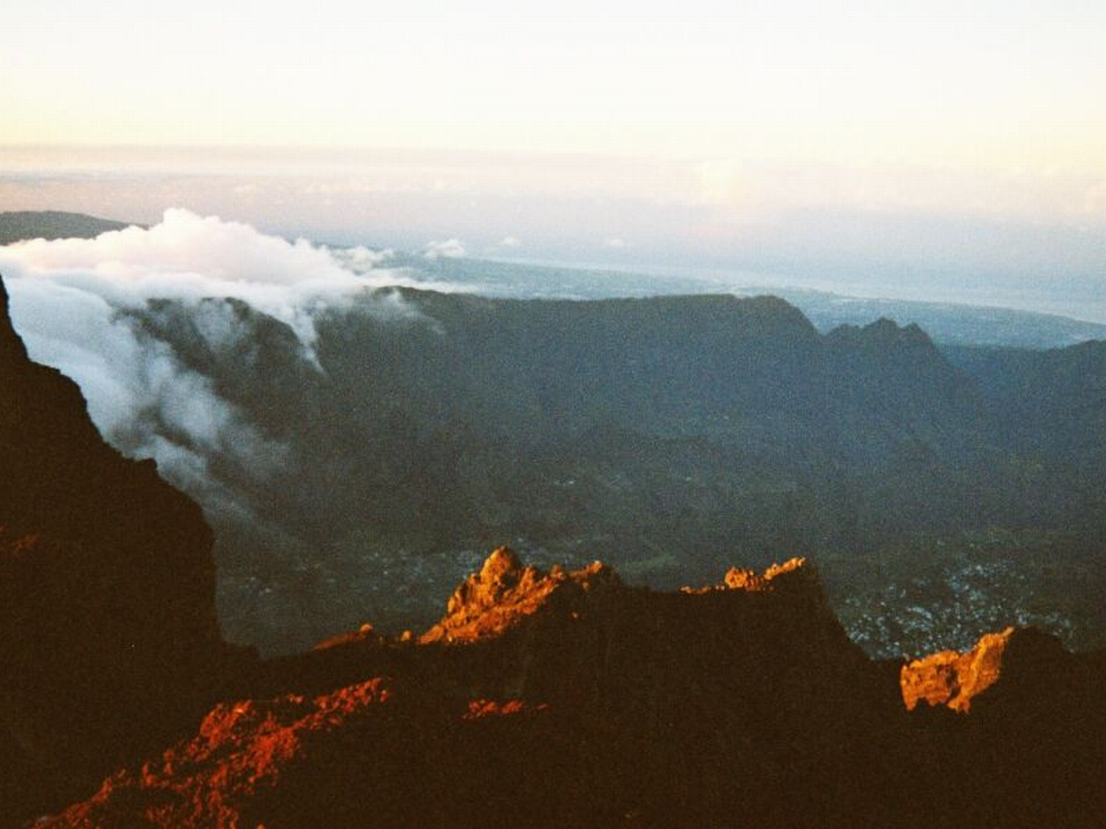 The Cirque de Cilaos, a volcanic caldera and community on Réunion, an overseas 'Departement' of France. Seen from the summit of the Piton des Neiges at dawn, looking southwards.